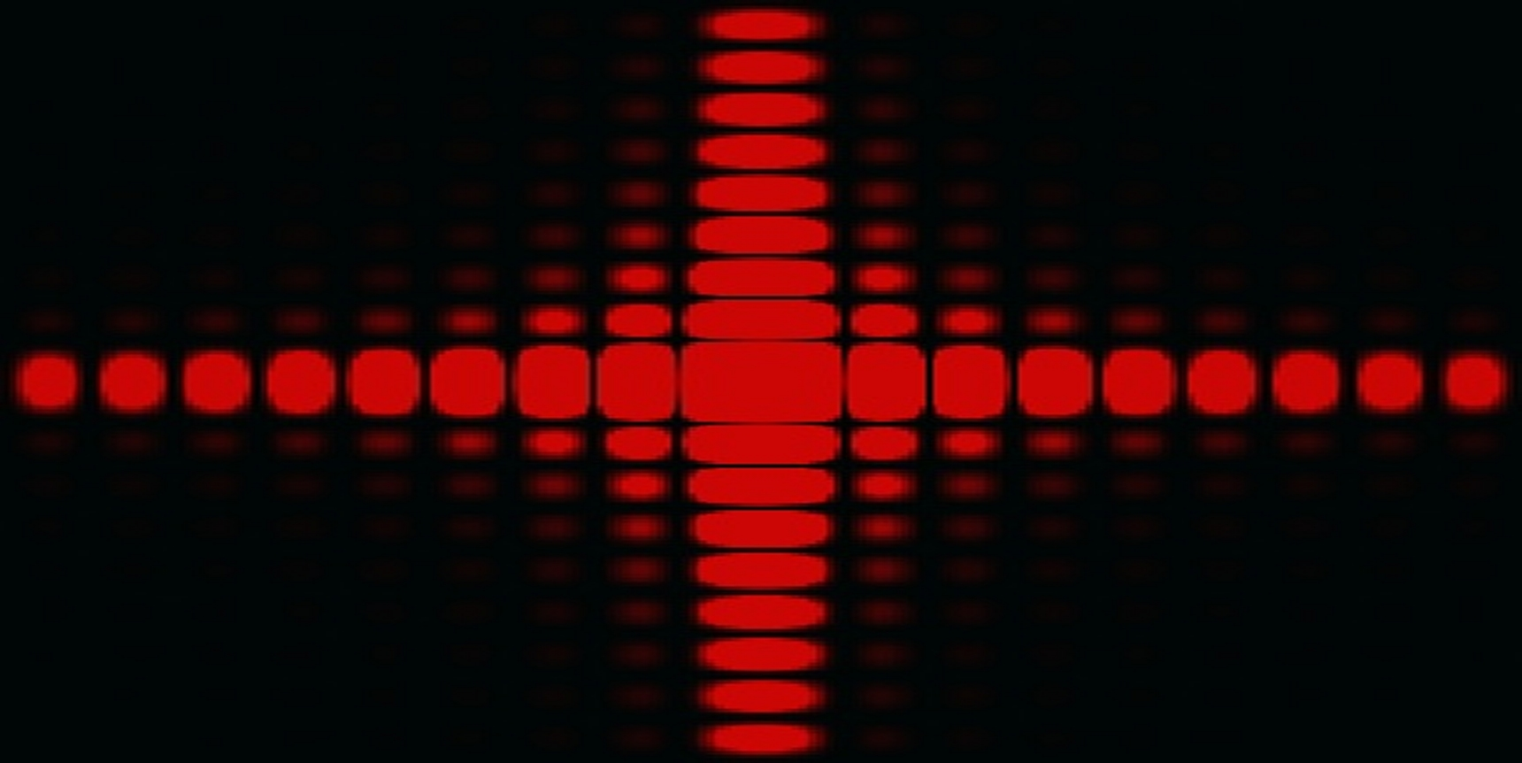 Square diffraction.jpg, which is a public domain image by user:V81. I have stretched it so it represnet rectnagular diffraction.